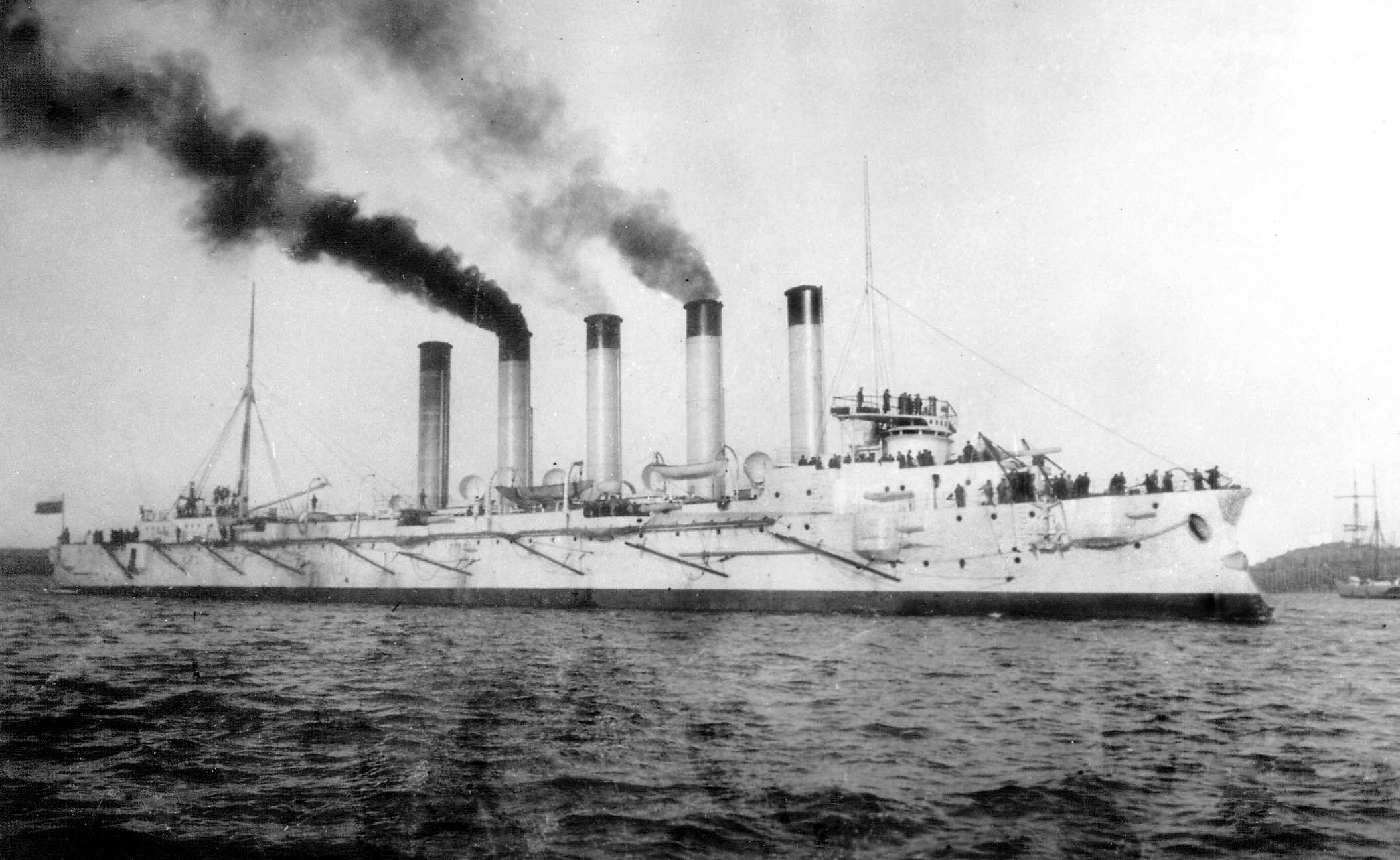 Imperial Russian protected cruiser Askol'd.